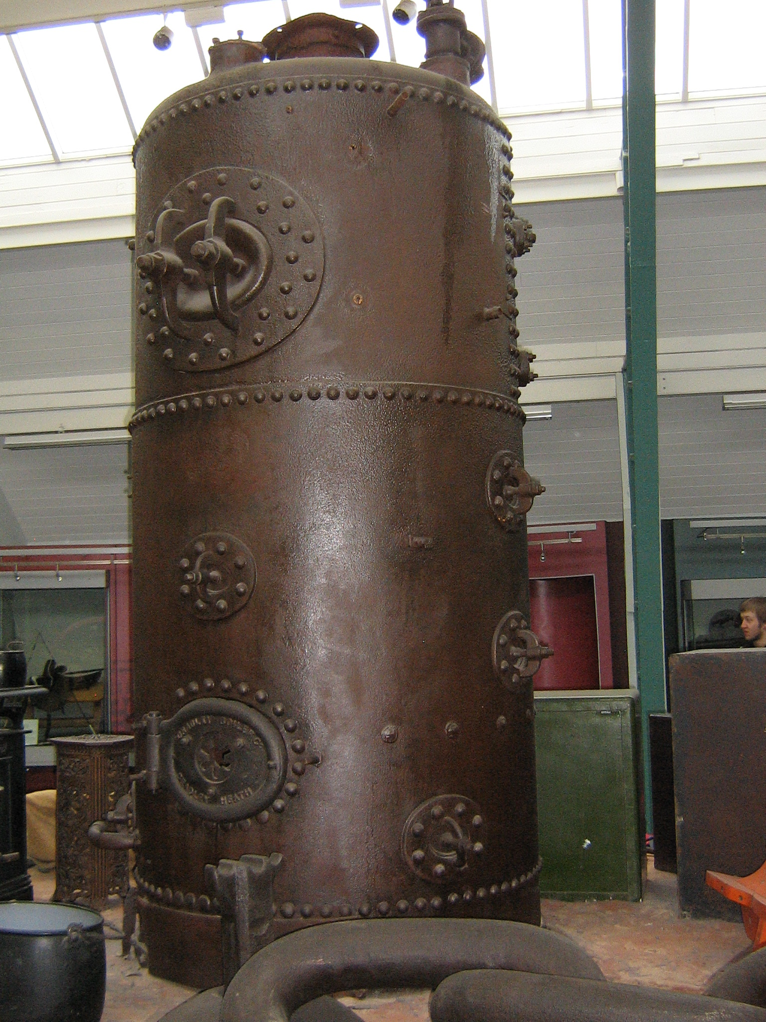 Black Country Living Museum, Wikimedia Backstage Pass day. Cradley Boiler